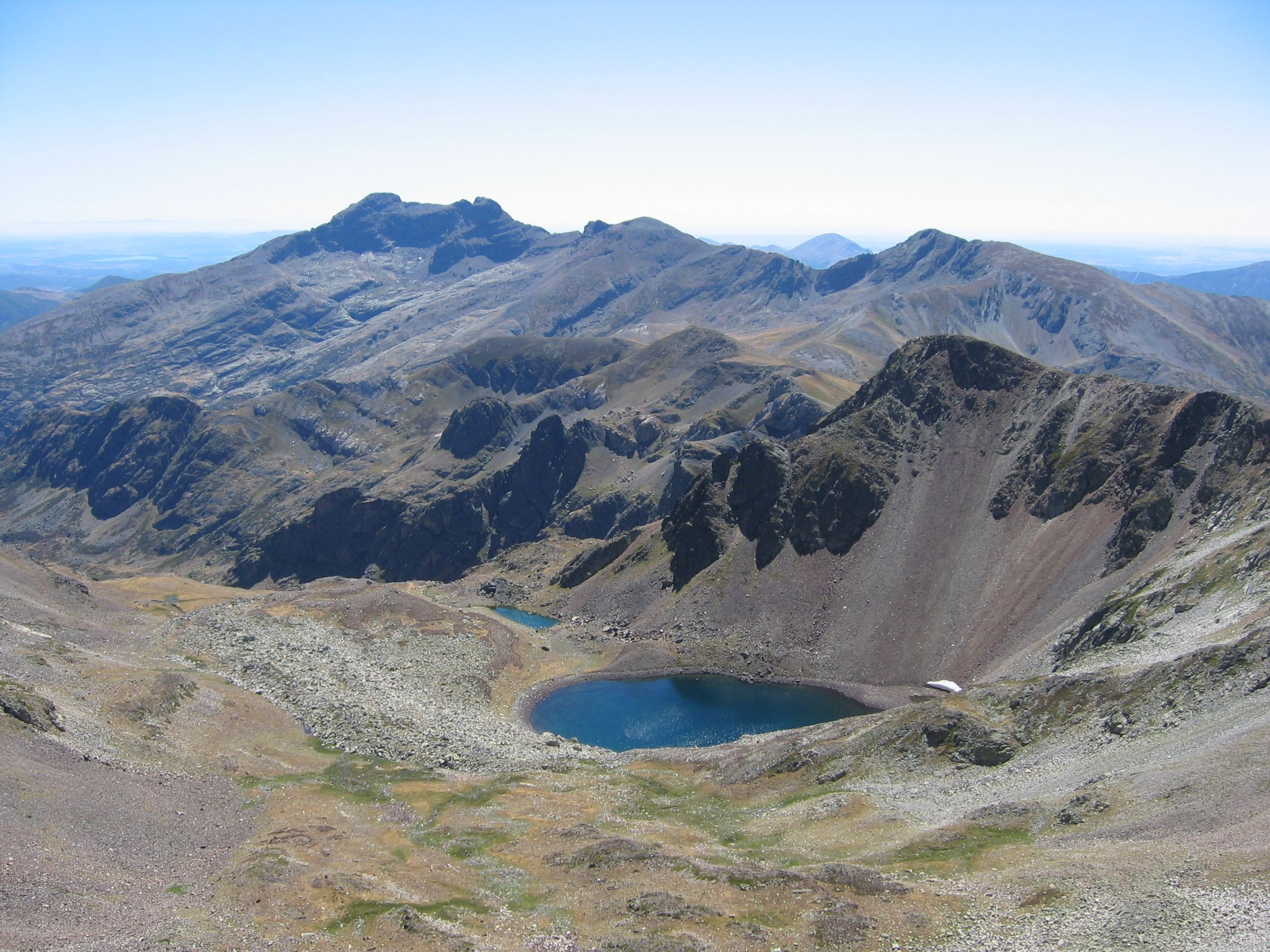 Fuentes Carrionas lagoon, and behind it, Curavacas (Palencia, Castile and León).